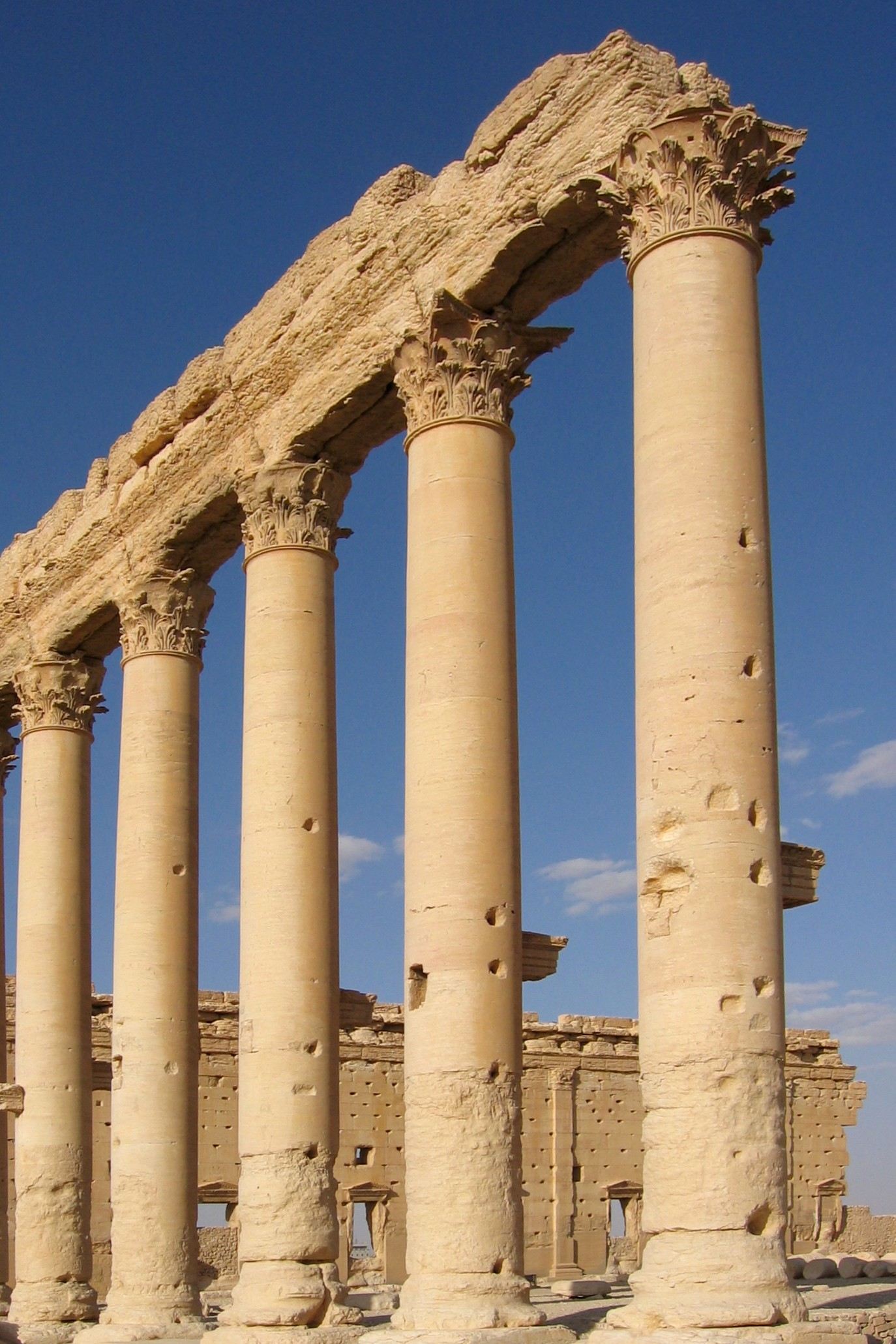 Cropped pillars from File:Columns in the inner court of the Bel Temple Palmyra Syria.JPG: File:1 pillar from the inner court of the Bel Temple Palmyra Syria.JPG File:2 pillars from the inner court of the Bel Temple Palmyra Syria.JPG File:3 pillars from the inner court of the Bel Temple Palmyra Syria.JPG File:4 pillars from the inner court of the Bel Temple Palmyra Syria.JPG File:5 pillars from the inner court of the Bel Temple Palmyra Syria.JPG